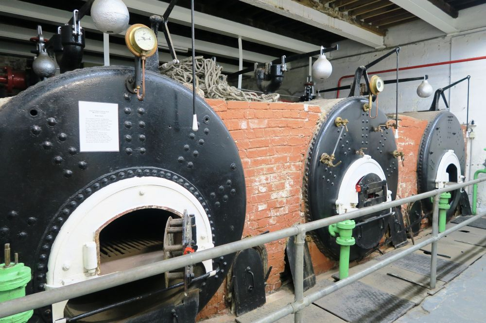 1906 boilers in the Boiler House (EHP, 2016)